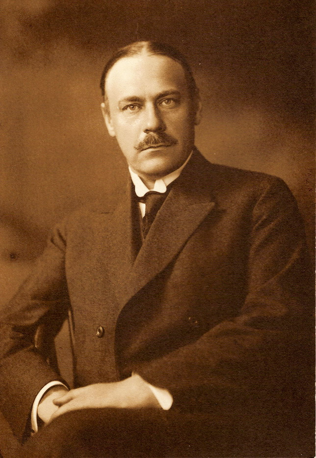 August Beskow (1880-1946). Swedish legal professional, government official and Minister without portfolio in the Swedish Government 1928-1930.